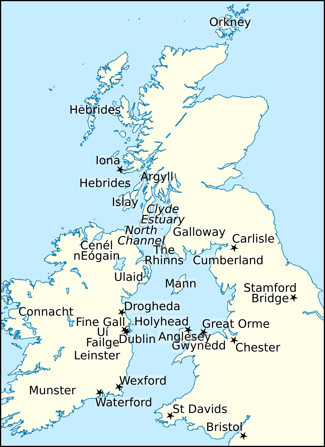 Map showing various places mentioned in the Wikipedia article Godred Crovan. Settlements are marked by stars; these include Bristol, Carlisle, Chester, Drogheda, Dublin, Fine Gall, Holyhead, St Davids, Waterford, and Wexford. Great Orme is also marked by a star.